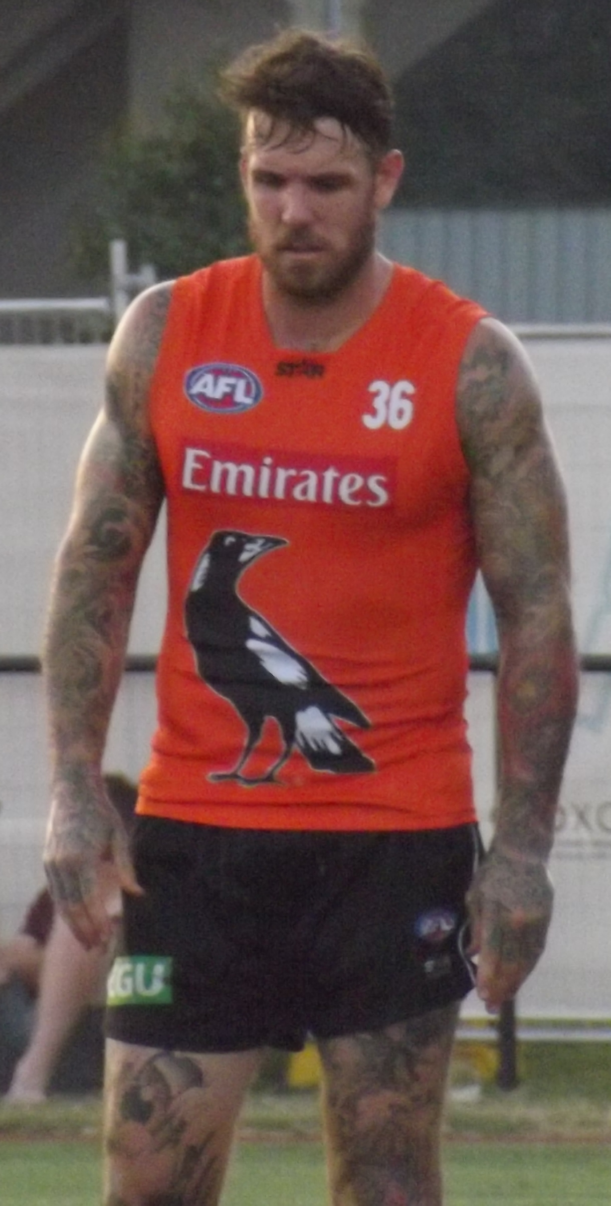 Dane Swan during a Collingwood intra-club match at Olympic Park, Melbourne.